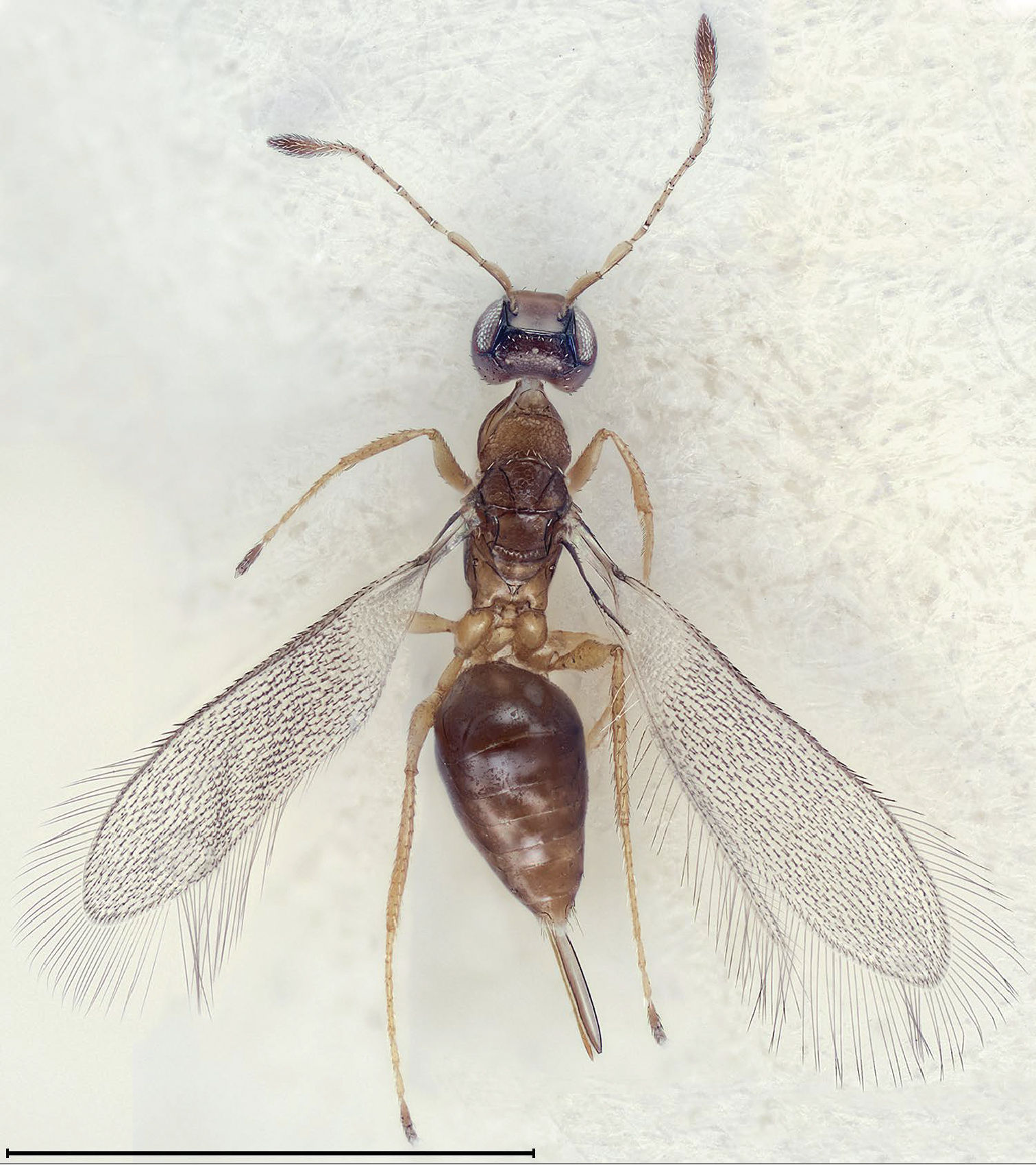 Cremnomymar sp., macropterous female, dorsal (fore wing flat). Scale line = 1000 μm.